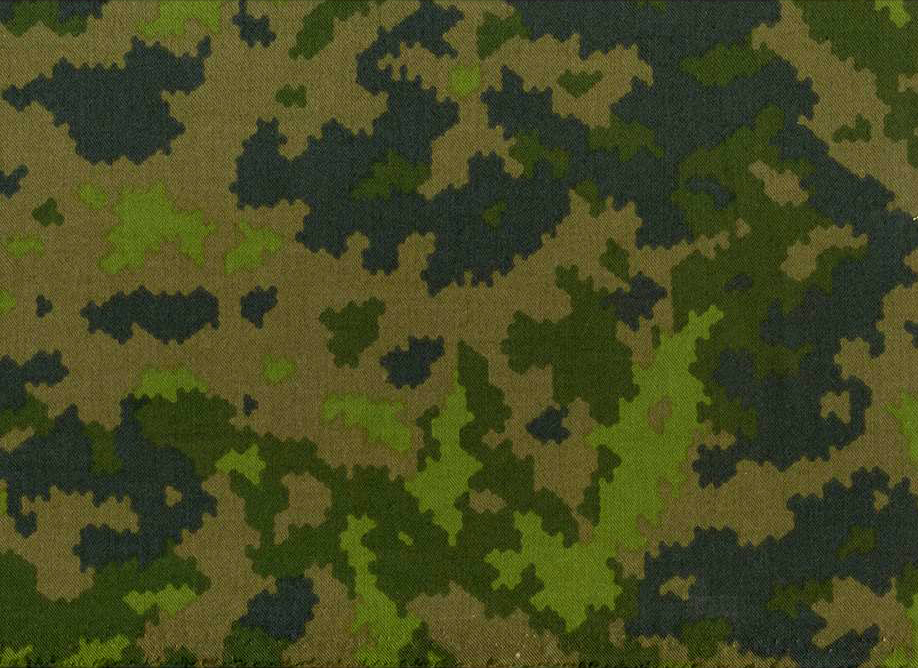 Finnish m/05 summer camouflage pattern